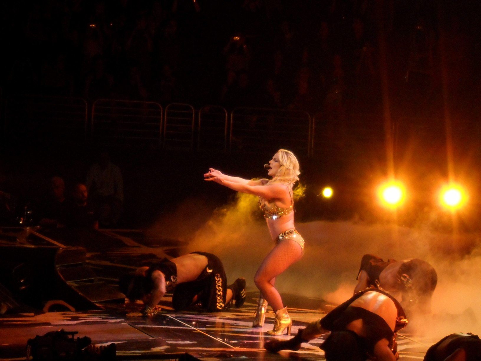 Spears performing "Gimme More" at the Femme Fatale Tour.